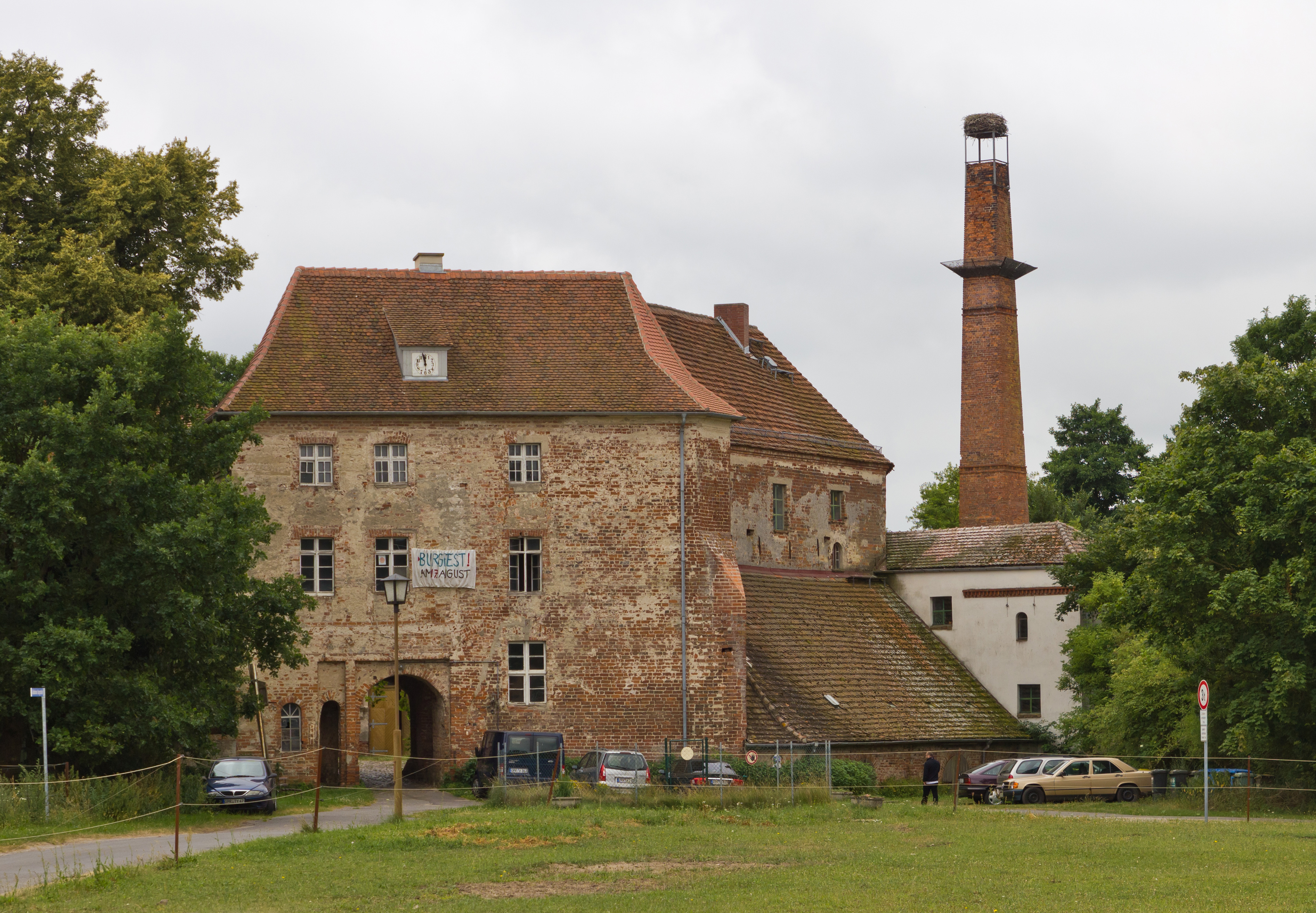 Goldbeck, Wittstock/Dosse, Brandenburg, Germany